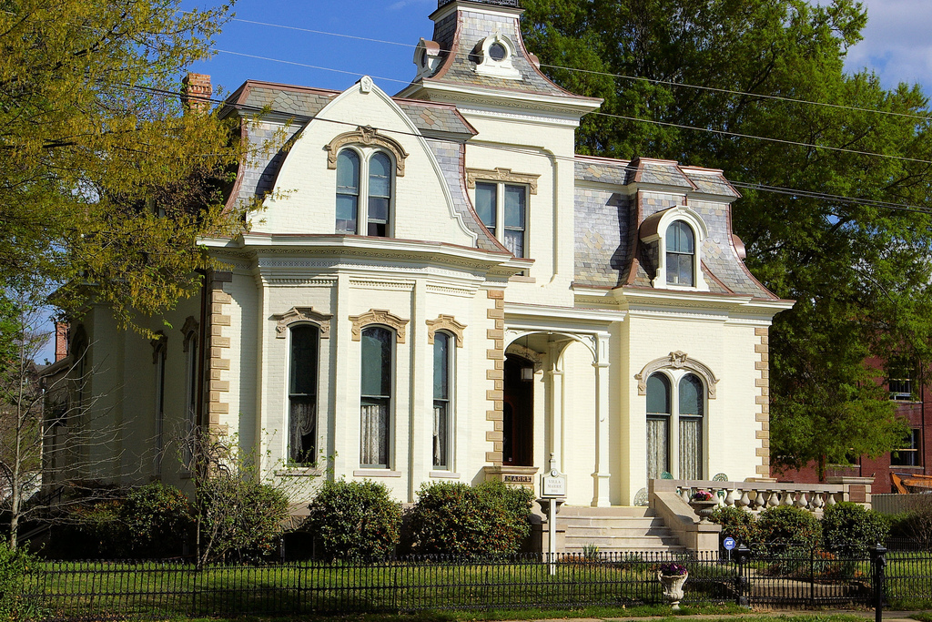 From flickr: Quapaw Quarter, Little Rock Arkansas. This was the house used in the television show "Designing Women".